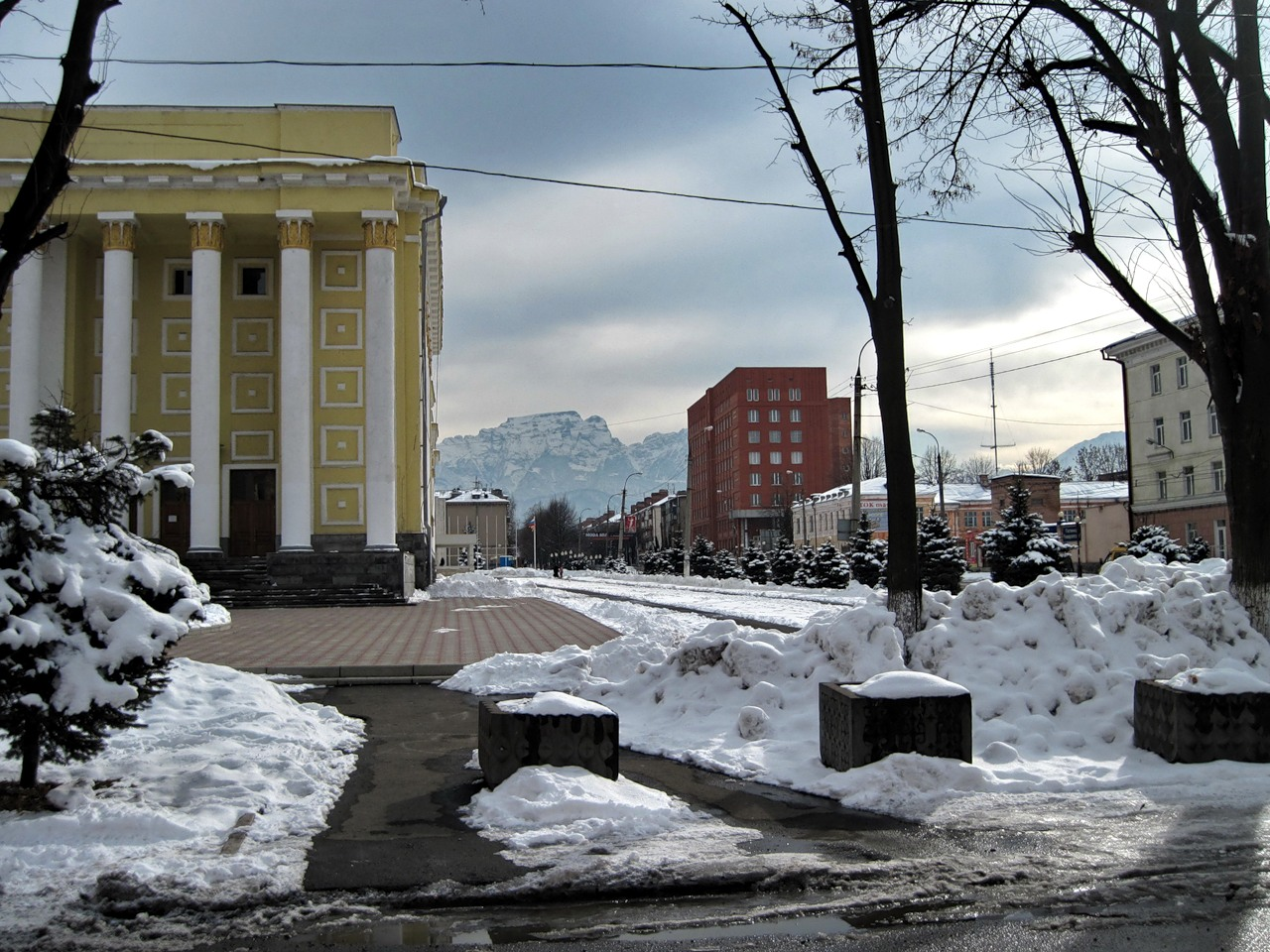 North Ossetian State University Kosta Khetagurov, Vladikavkaz. View from north.